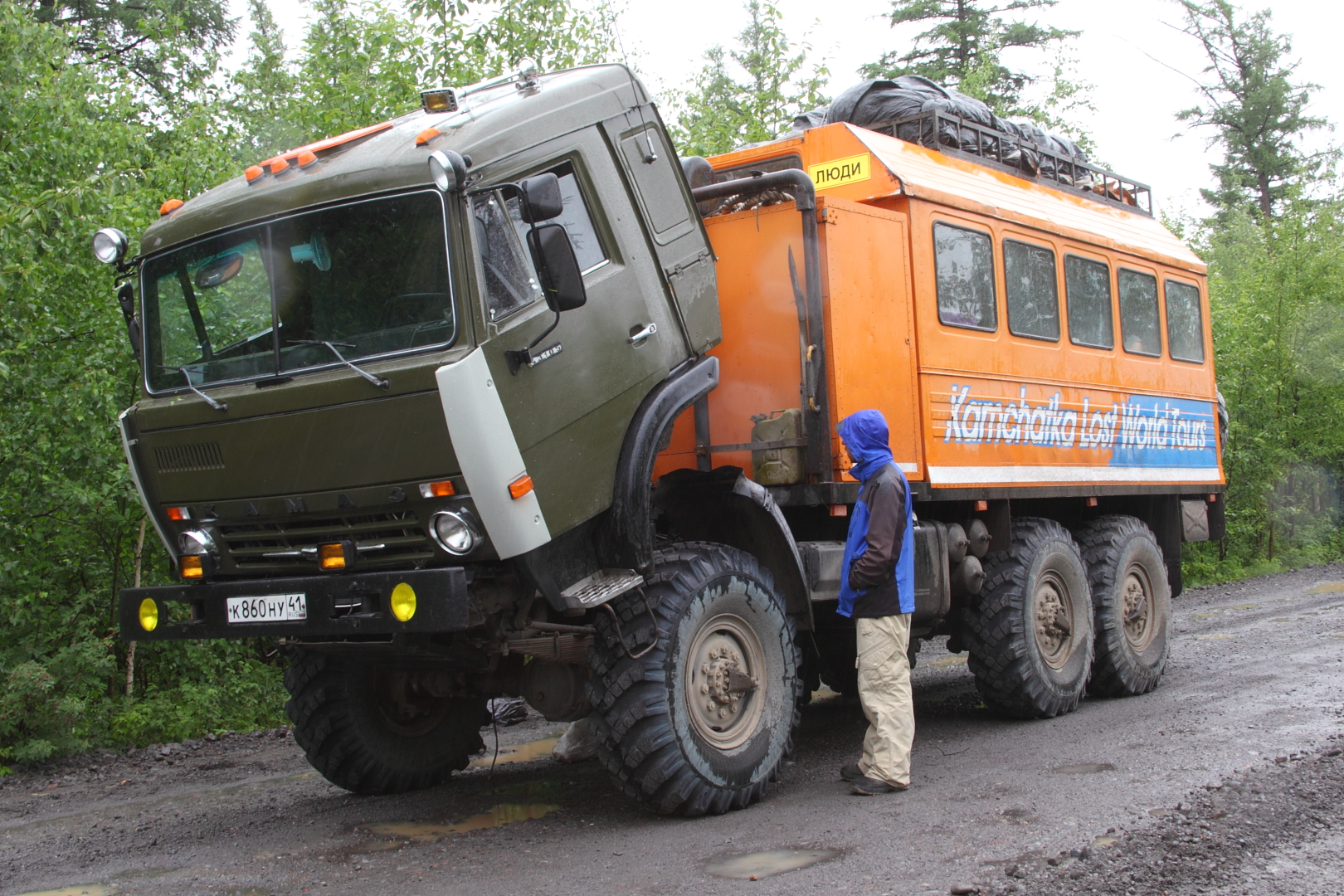 Kamaz-based off-road truck. Camera: Canon EOS 5D Mark II License on Flickr (2011-01-26): CC-BY-SA-2.0 Flickr tags: Russland, Russia, Kamtsjatka, Kamchatka, Kamaz